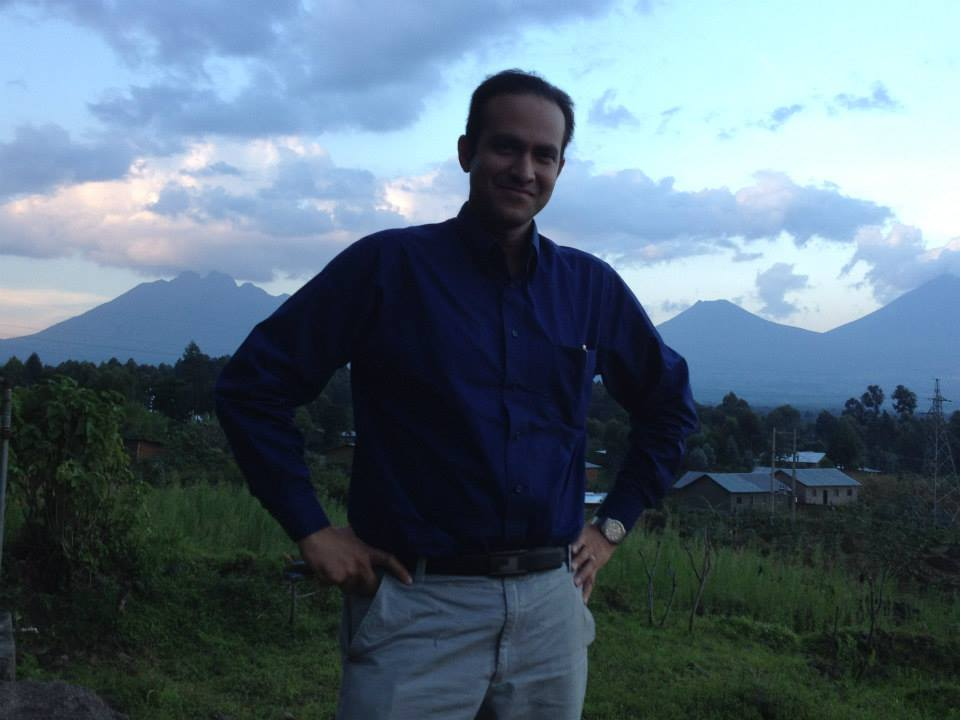 Professor Saleem Ali during a field visit in Rwanda